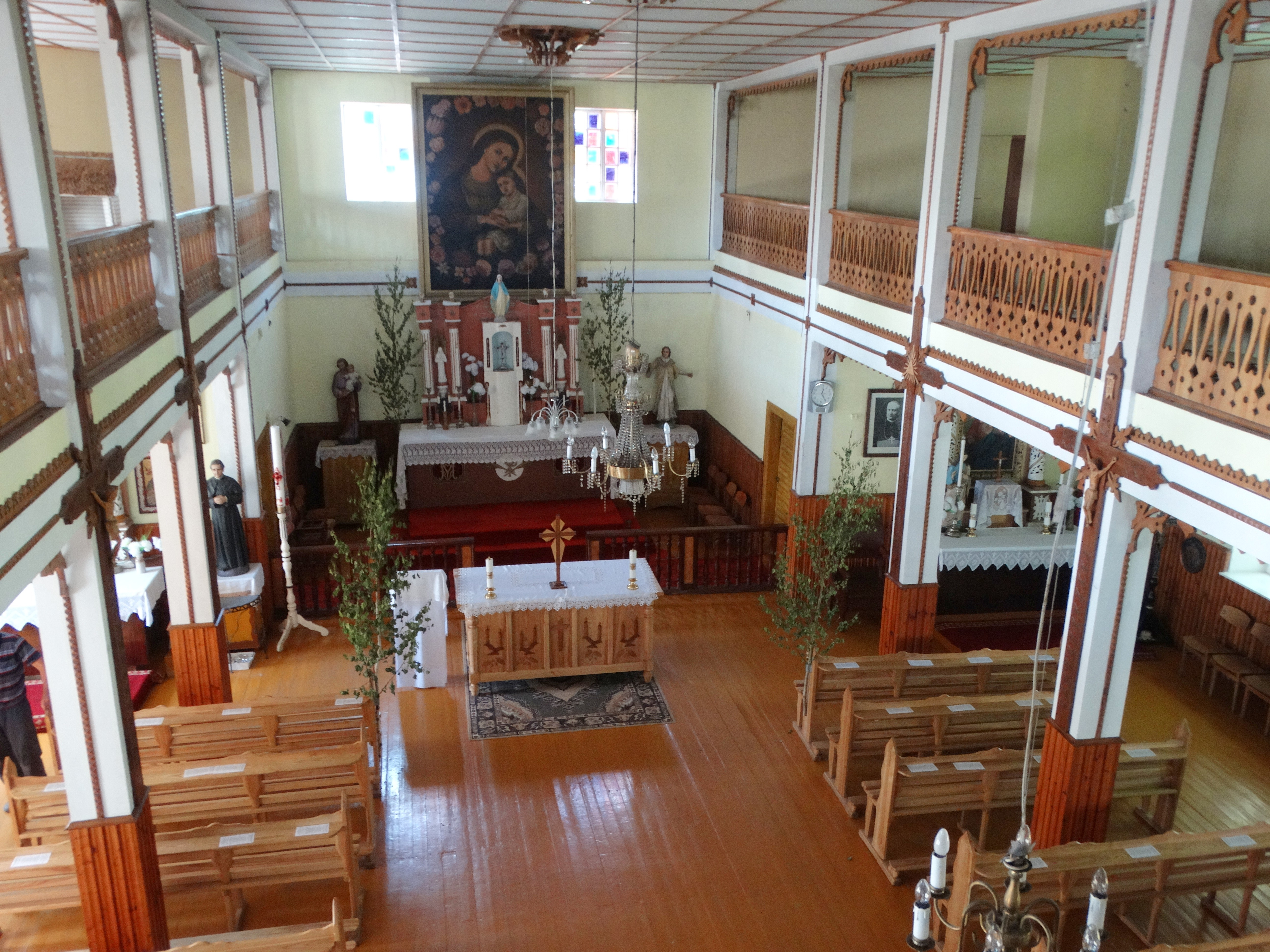 Pagiriai church, Kėdainiai district, Lithuania